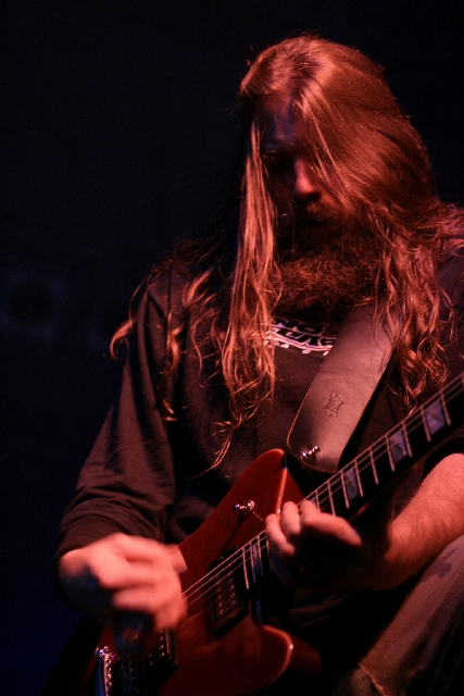 Guitarist Mark Morton of Lamb of God.